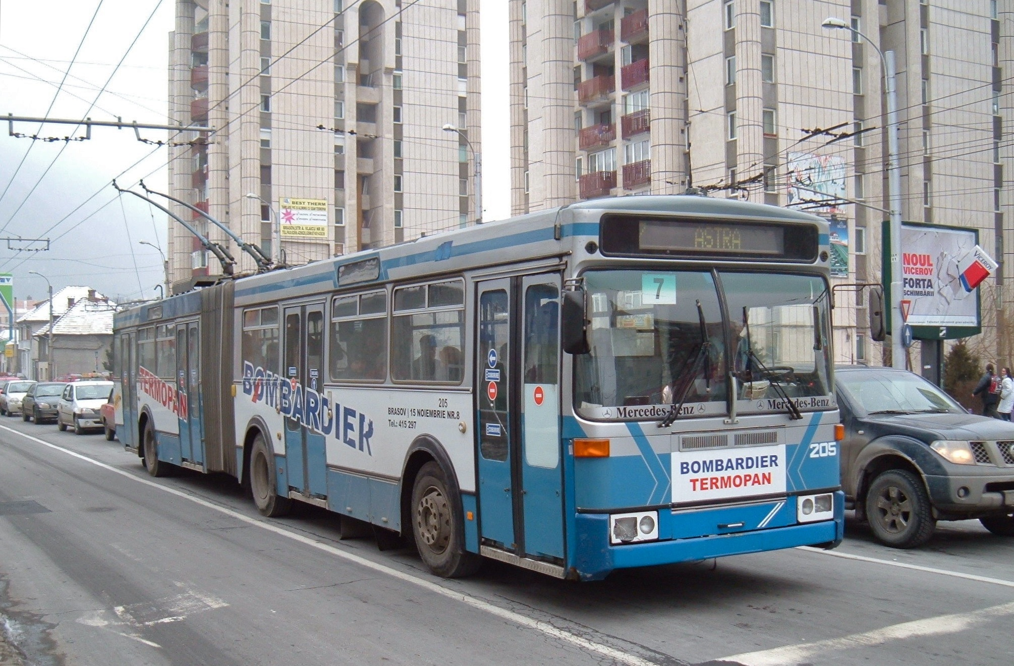 Braşov 205 was built around 1986 by Vetter/Rizzi for the Lugano trolleybus system (in Switzerland). After the closure of the Lugano system in 2001, No. 205 was acquired by Braşov, where it entered service carrying the same fleet number. It is still wearing blue-and-silver Lugano fleet livery in this 2006 photo, but with Romanian advertising applied over much of its lower portion. In this photo, No. 205 is northbound on Strada 13 Decembrie at Bulevardul Grivitei, on route 7 (its destination sign is incorrect; it is coming from Astra).